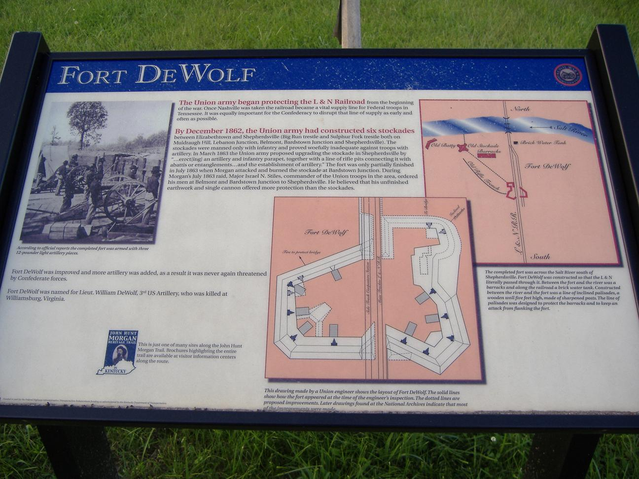 The Fort DeWolf marker just outside Shepherdsville, Kentucky.